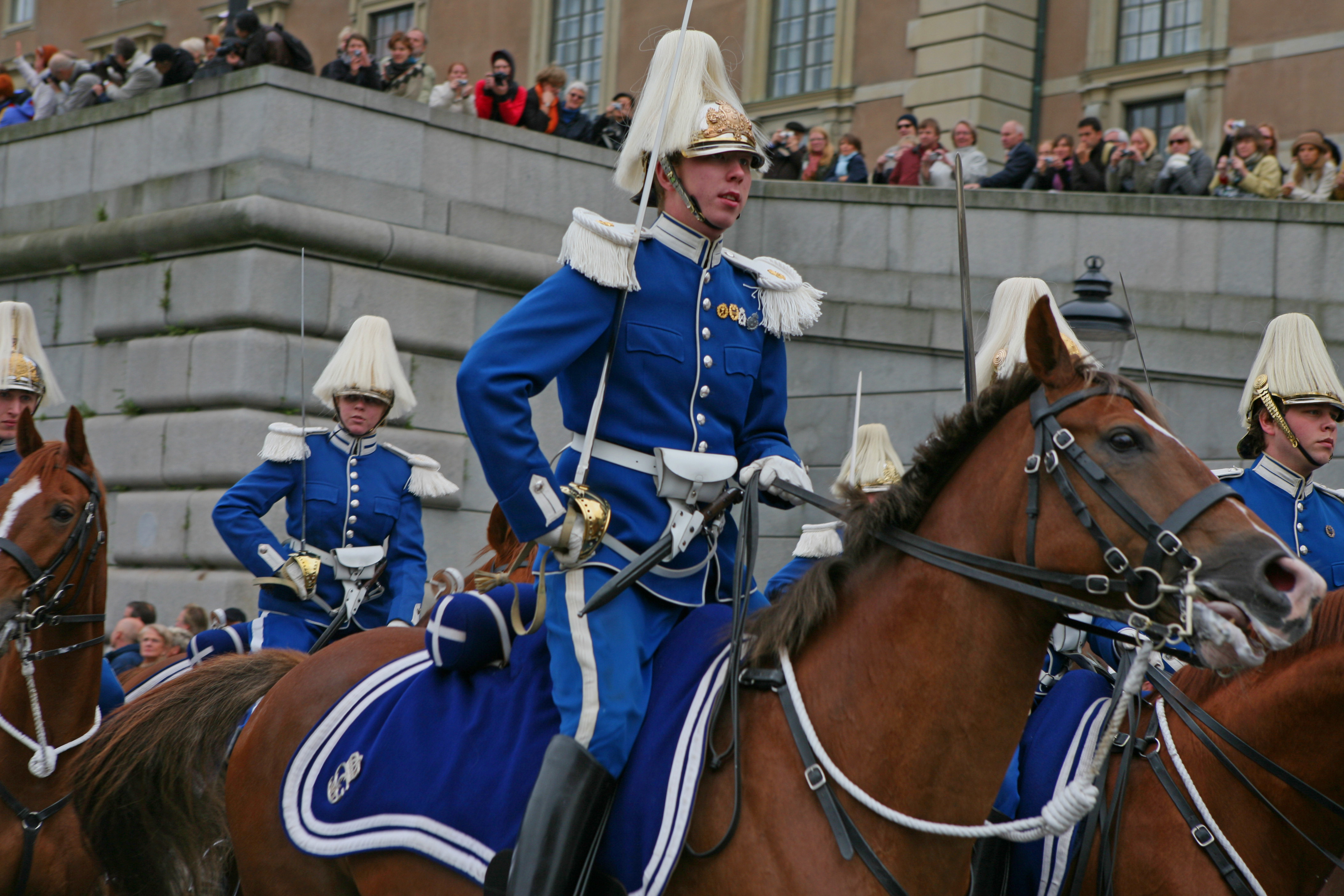 Lifeguards with epaulettes